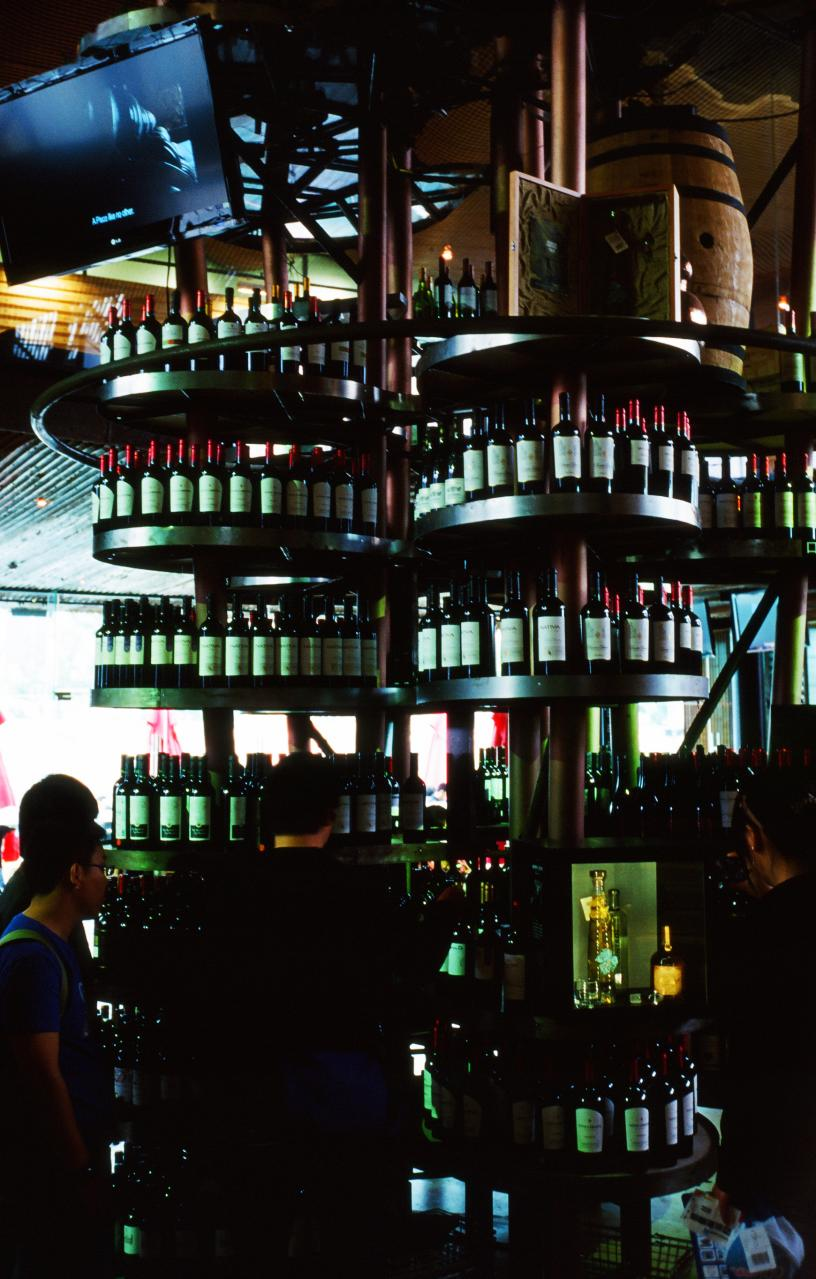 Winery, Chile Pavilion